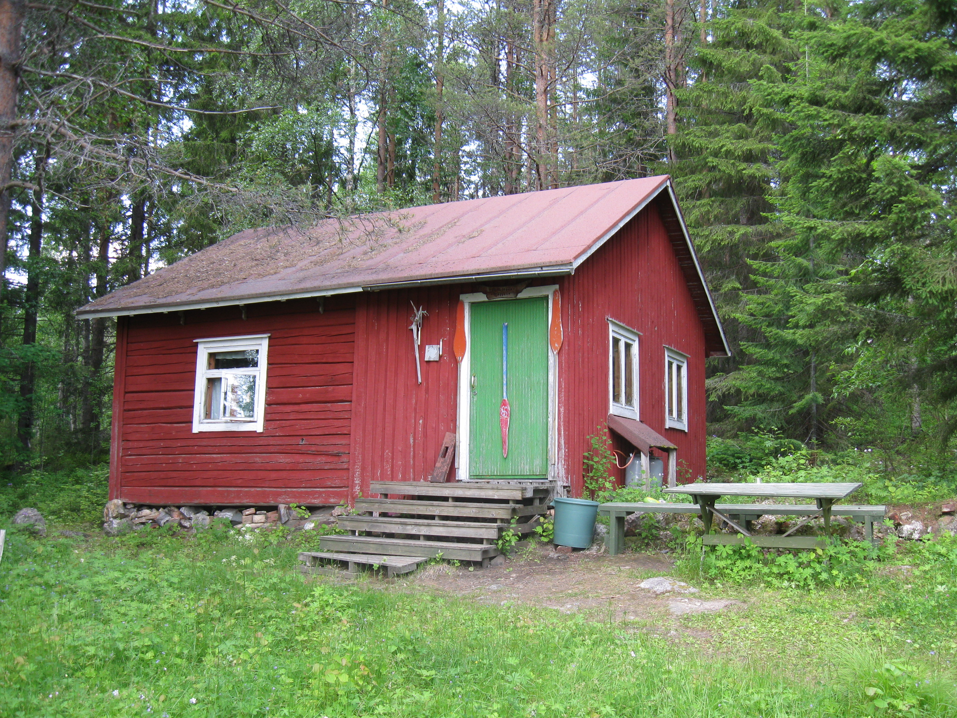 The so called "Tietäväisen temppeli" building in the Turjanlinna area in Suomussalmi, Finland.